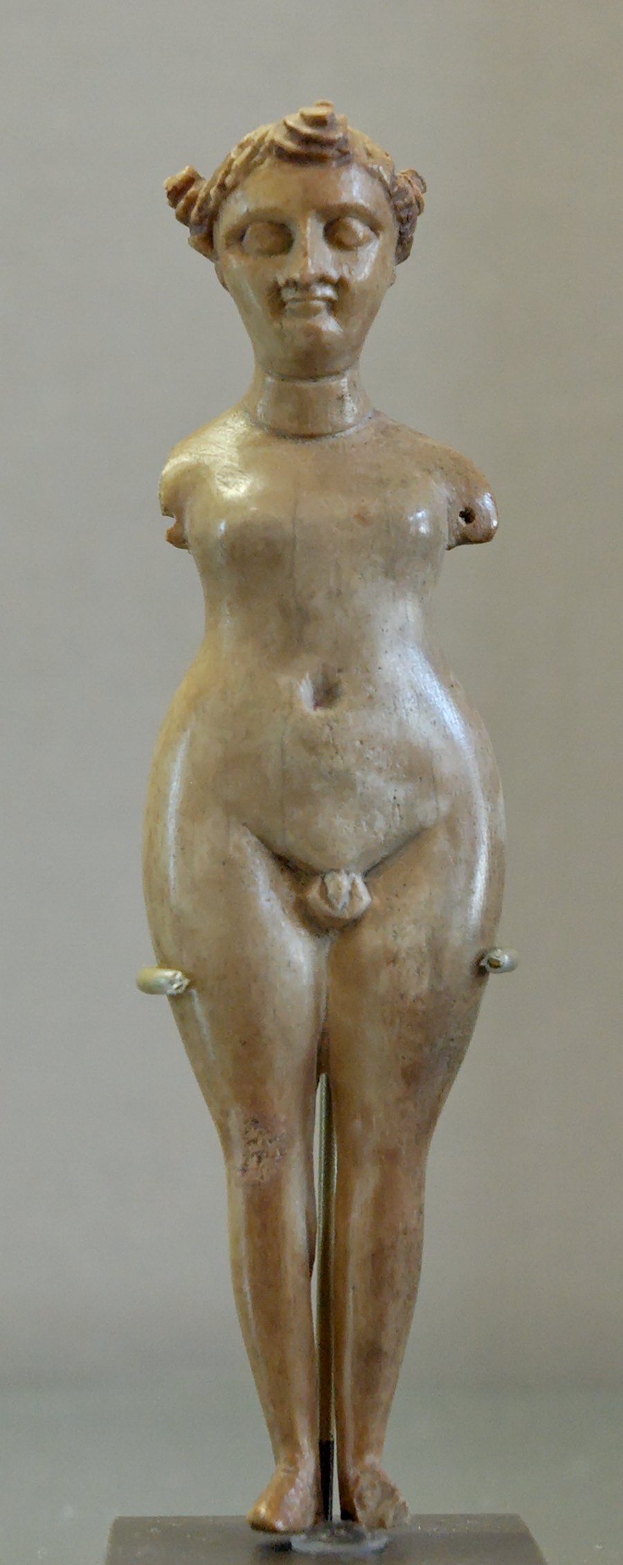 Statuette of an androgynous figure. Bone, Seleucid artwork, Mesopotamia, 1st century BC/CE.